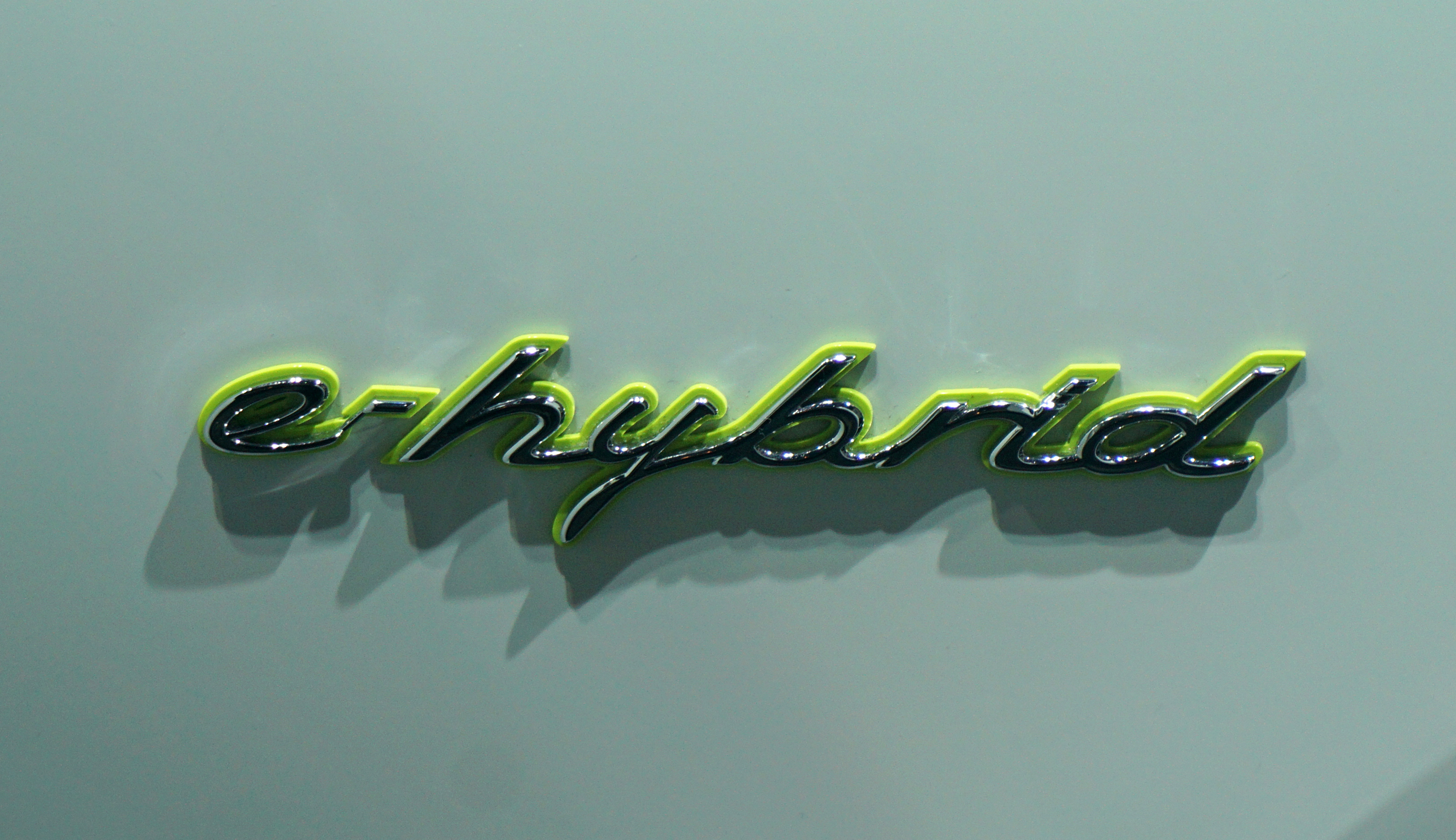 Plug-in electric hybrid badge used in the Porsche Cayenne e-hybrid. Salão Internacional do Automóvel 2016 São Paulo, Brazil.